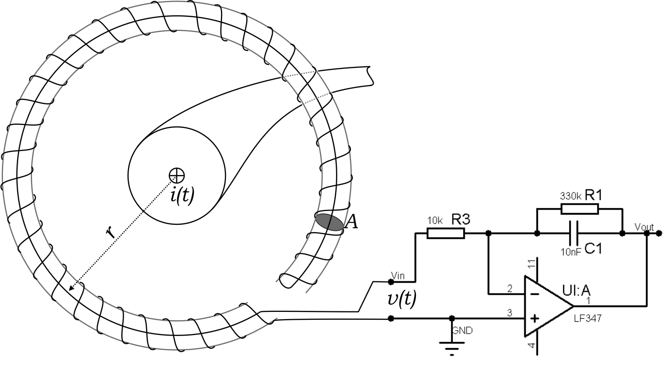 Schematic drawing of a Rogowski coil used as an AC current sensor, and connected to an integrator circuit to obtain an output voltage proportional to the instantaneous value of the current i(t)